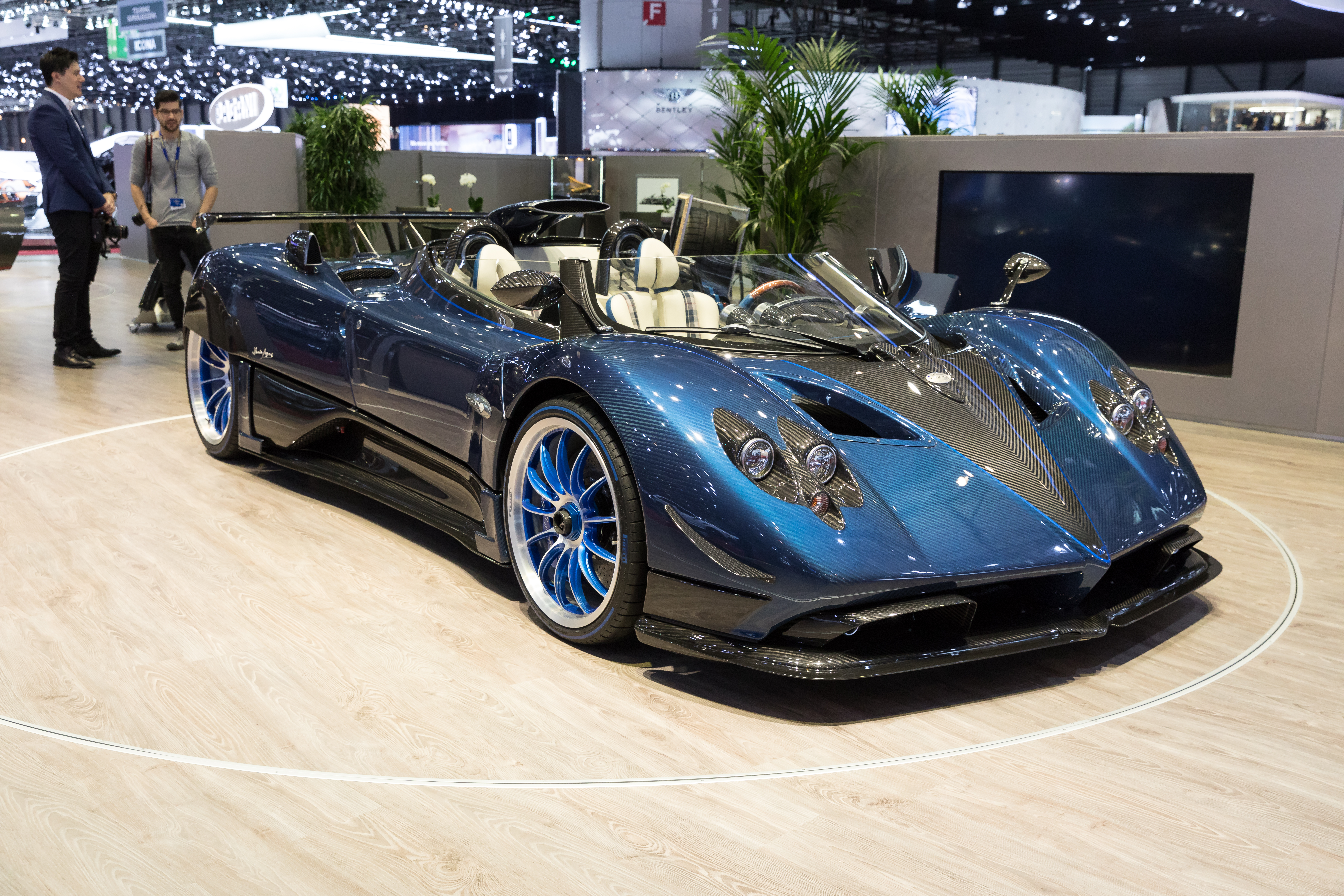 Geneva International Motor Show 2018